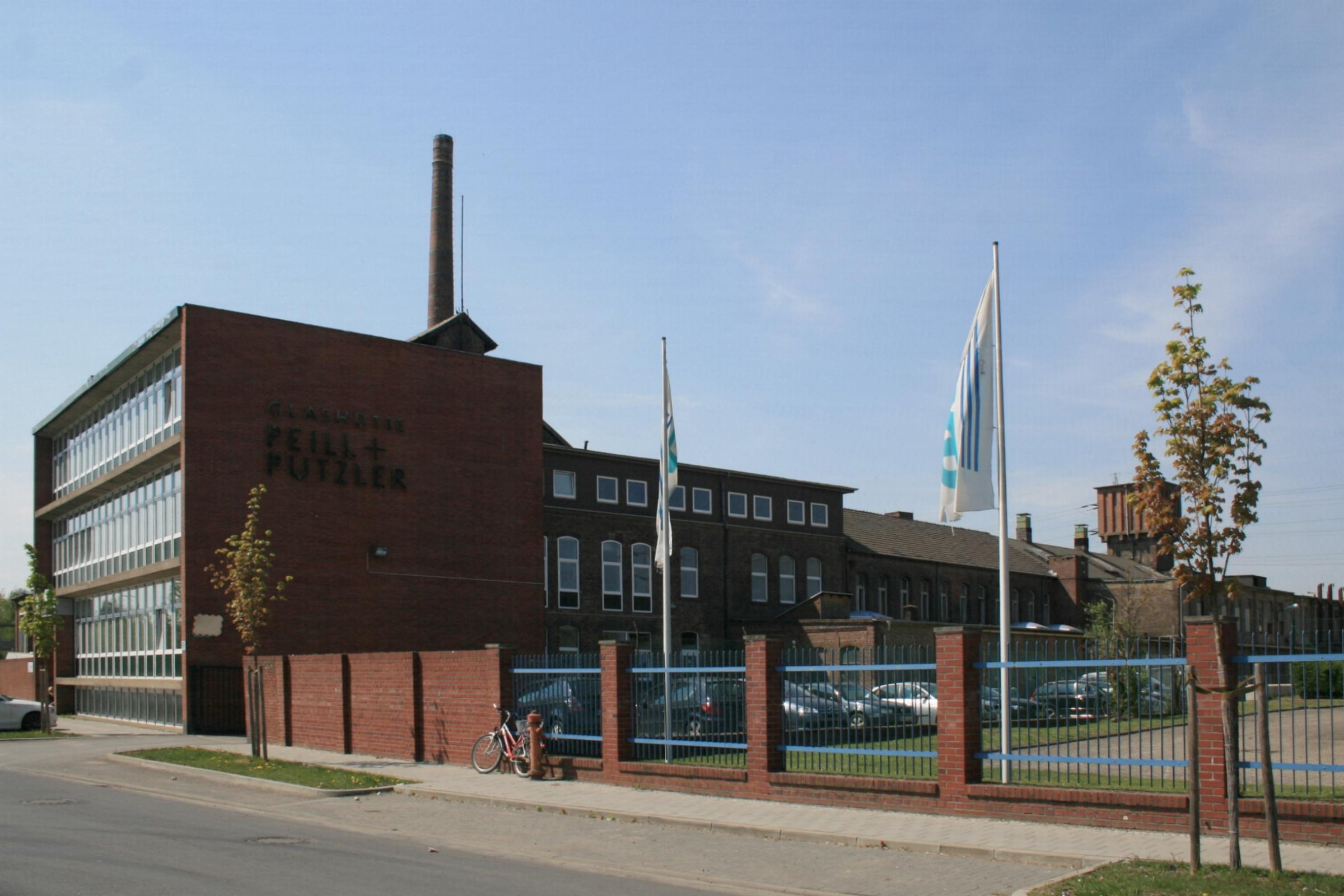 Cultural heritage monument No. 1/129 in Düren